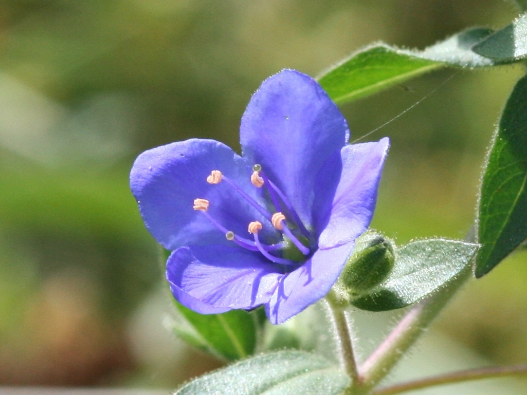 Hydrolea spinosa, Rio Ventuari, Venezuela